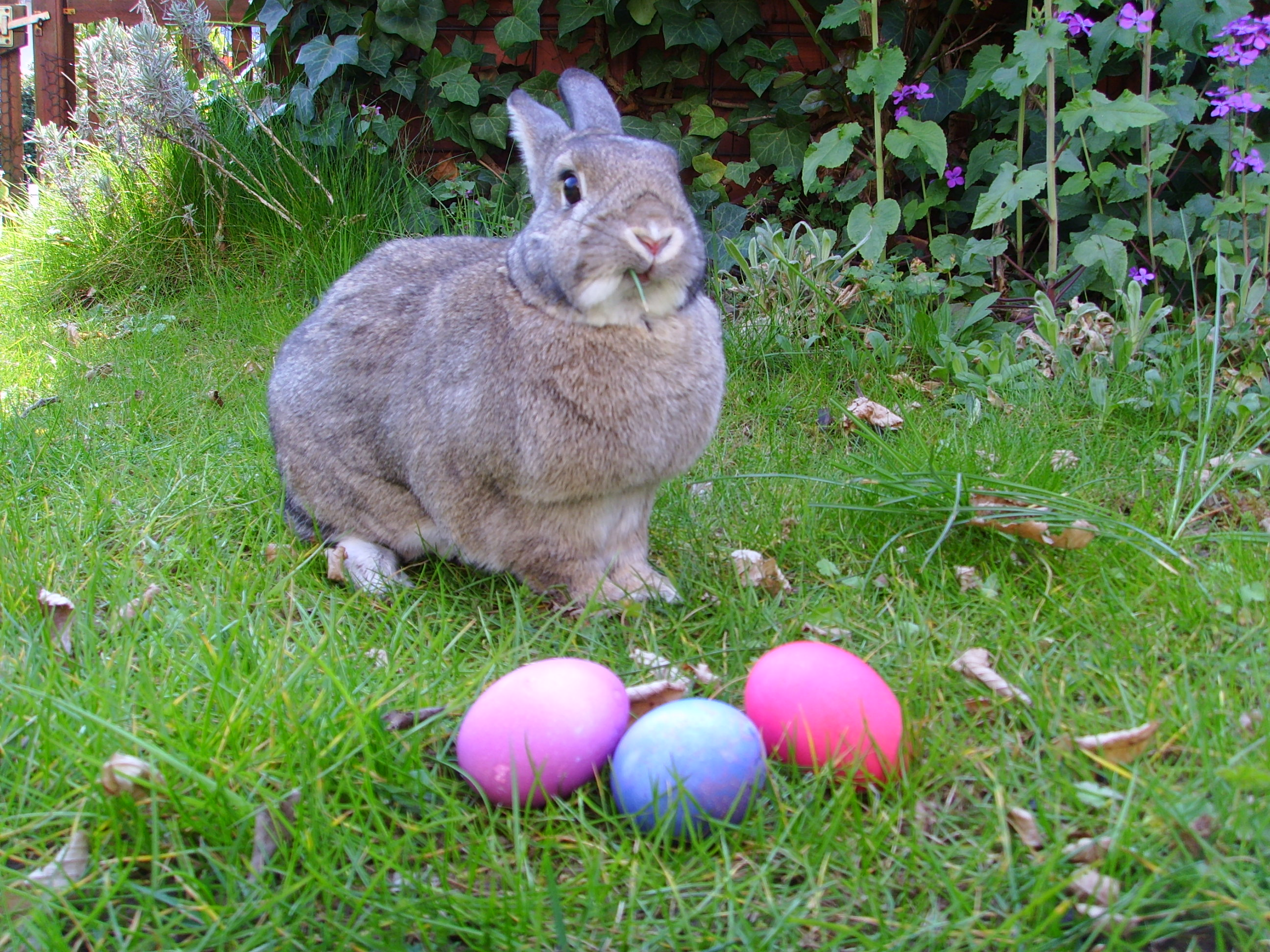 Domestic rabbit and 3 easter eggs from Germany